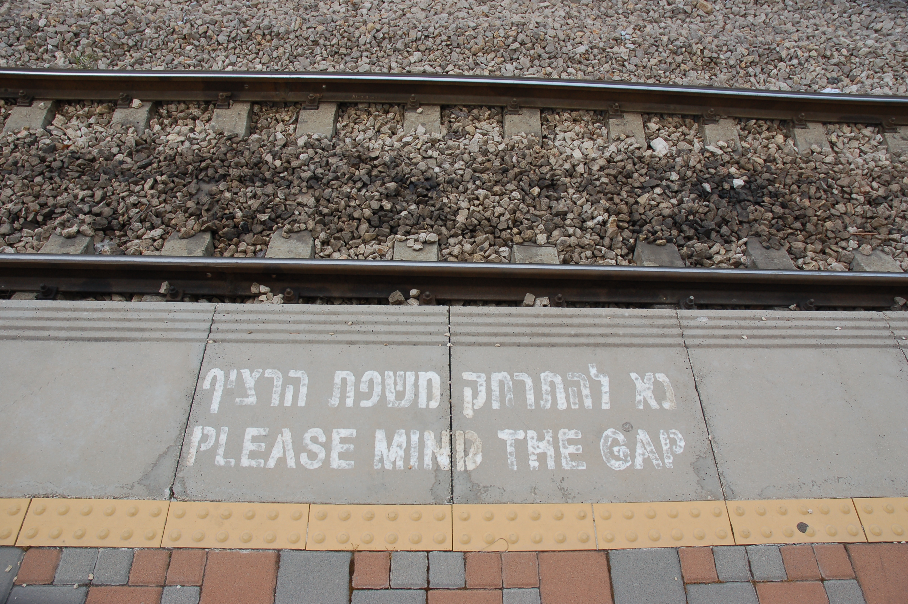 Looking down at the railway track ("Please mind the gap"): Israel Railways Nahariya Train Station, Nahariya